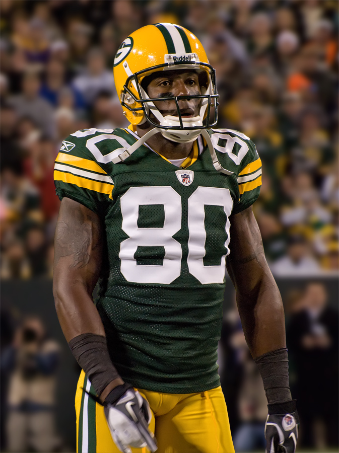 Minnesota Vikings vs. Green Bay Packers at Lambeau Field on Monday Night, November 14, 2011. Photo by Mike Morbeck.